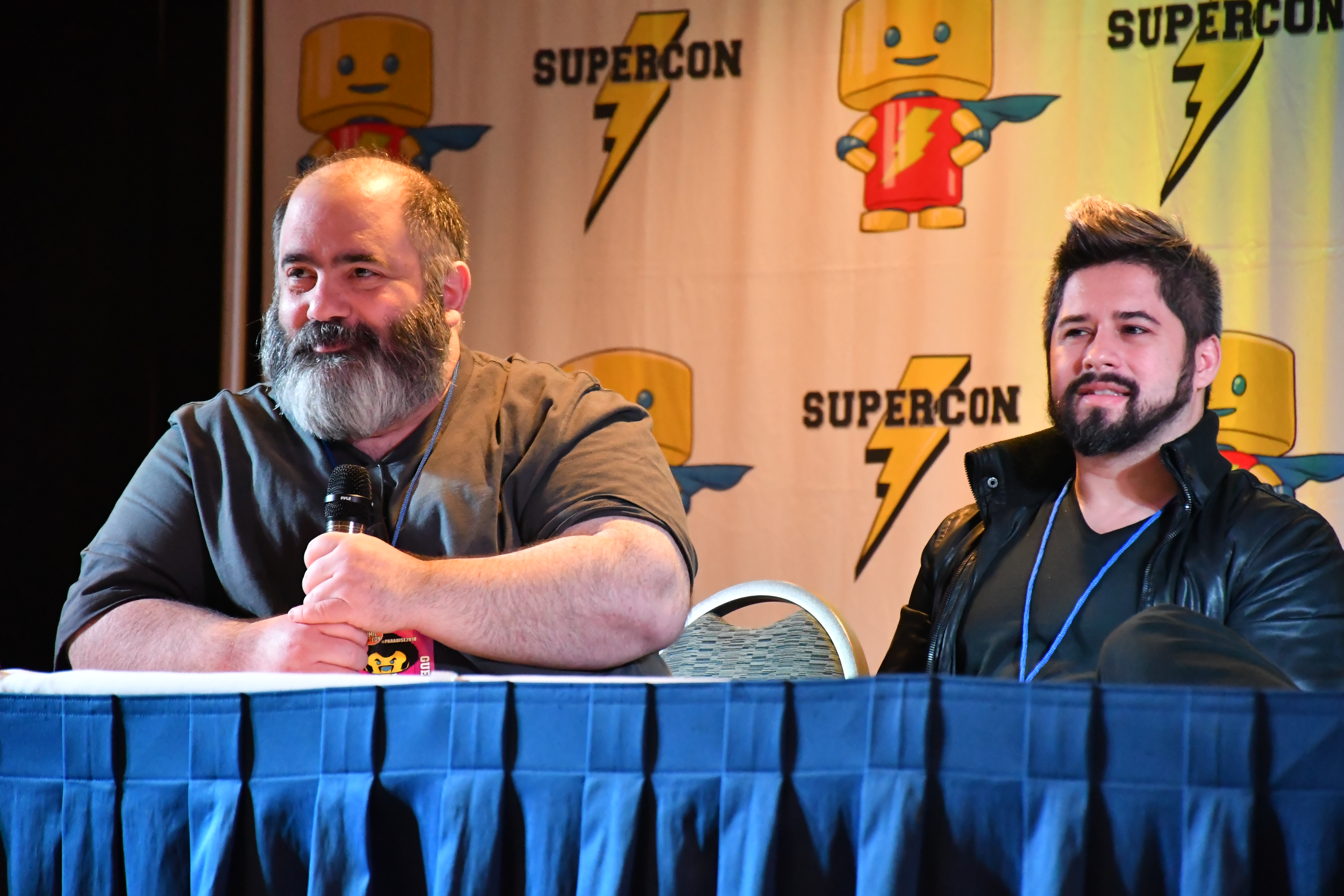 Jorge Molina at the Paradise City Comic Con in 2018